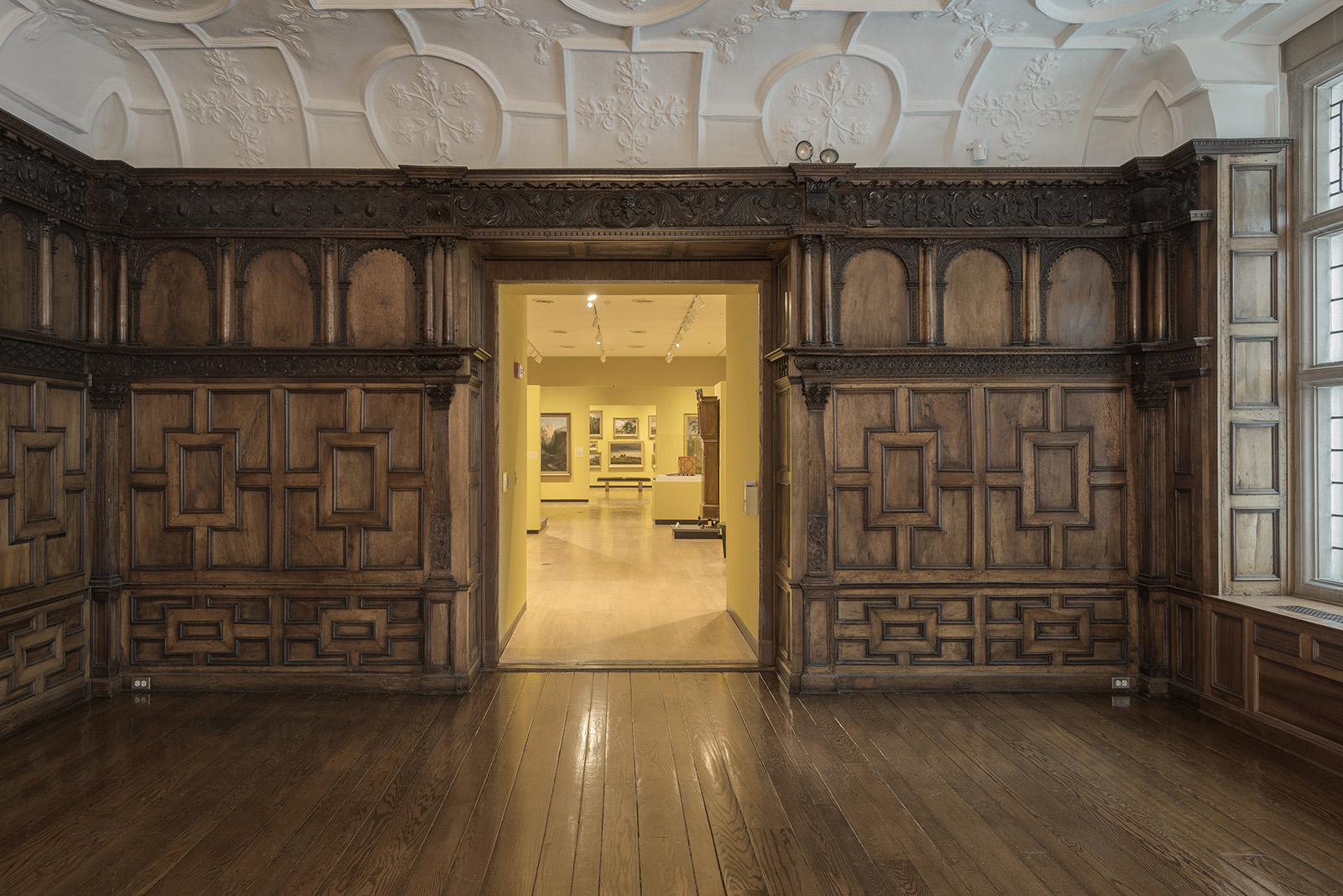 The entrance to the Rotherwas at the Mead Art Museum, Amherst College.